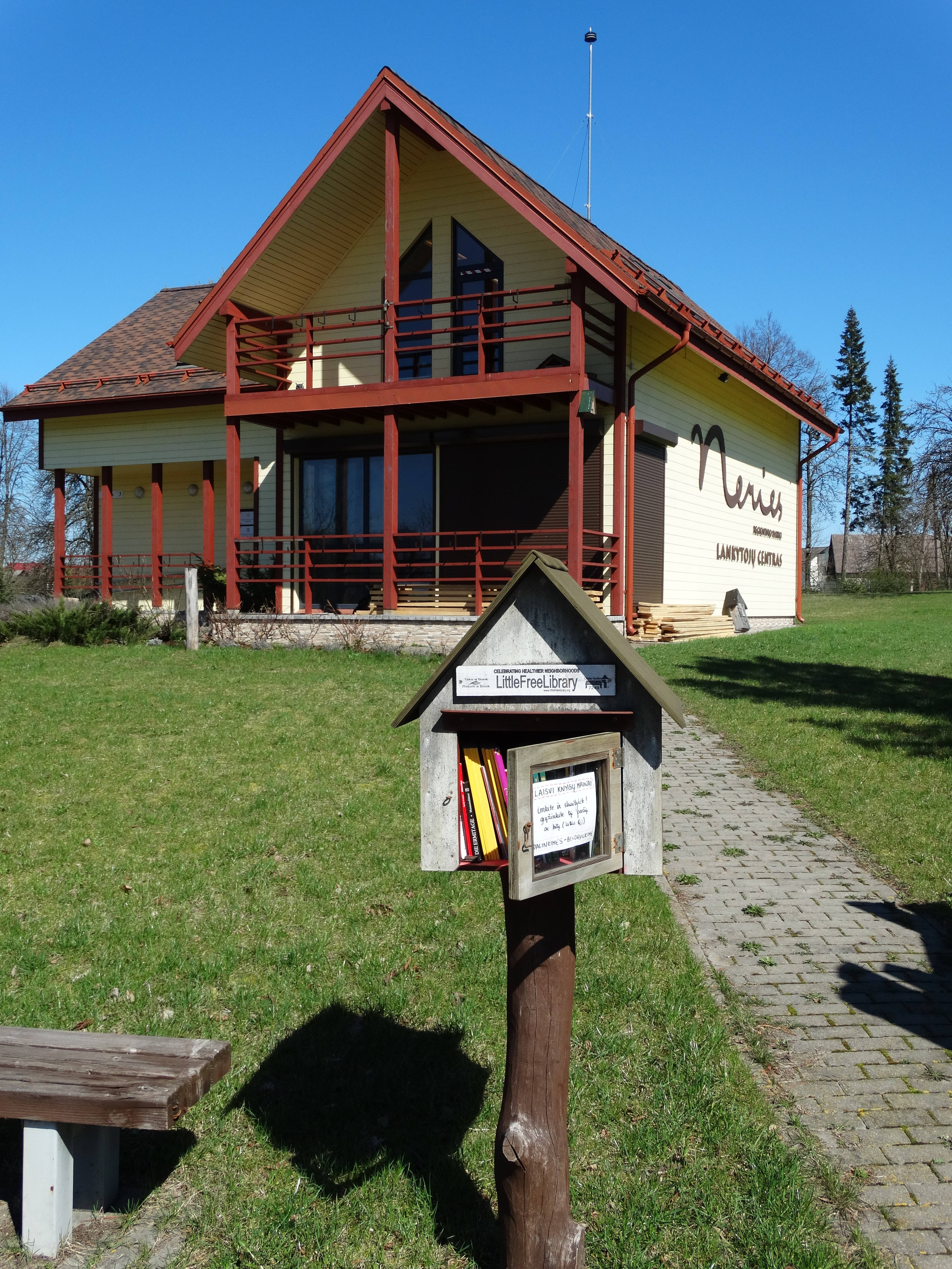 Regional park office, Dūkštos, Vilnius district, Lithuania